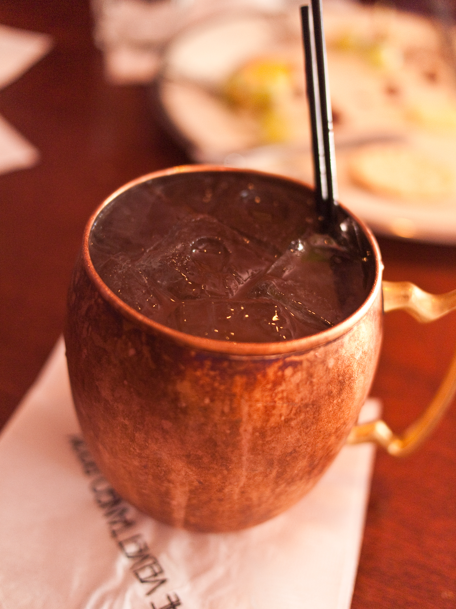 A cocktail composed of vodka, lime juice and ginger beer, served in a copper mug